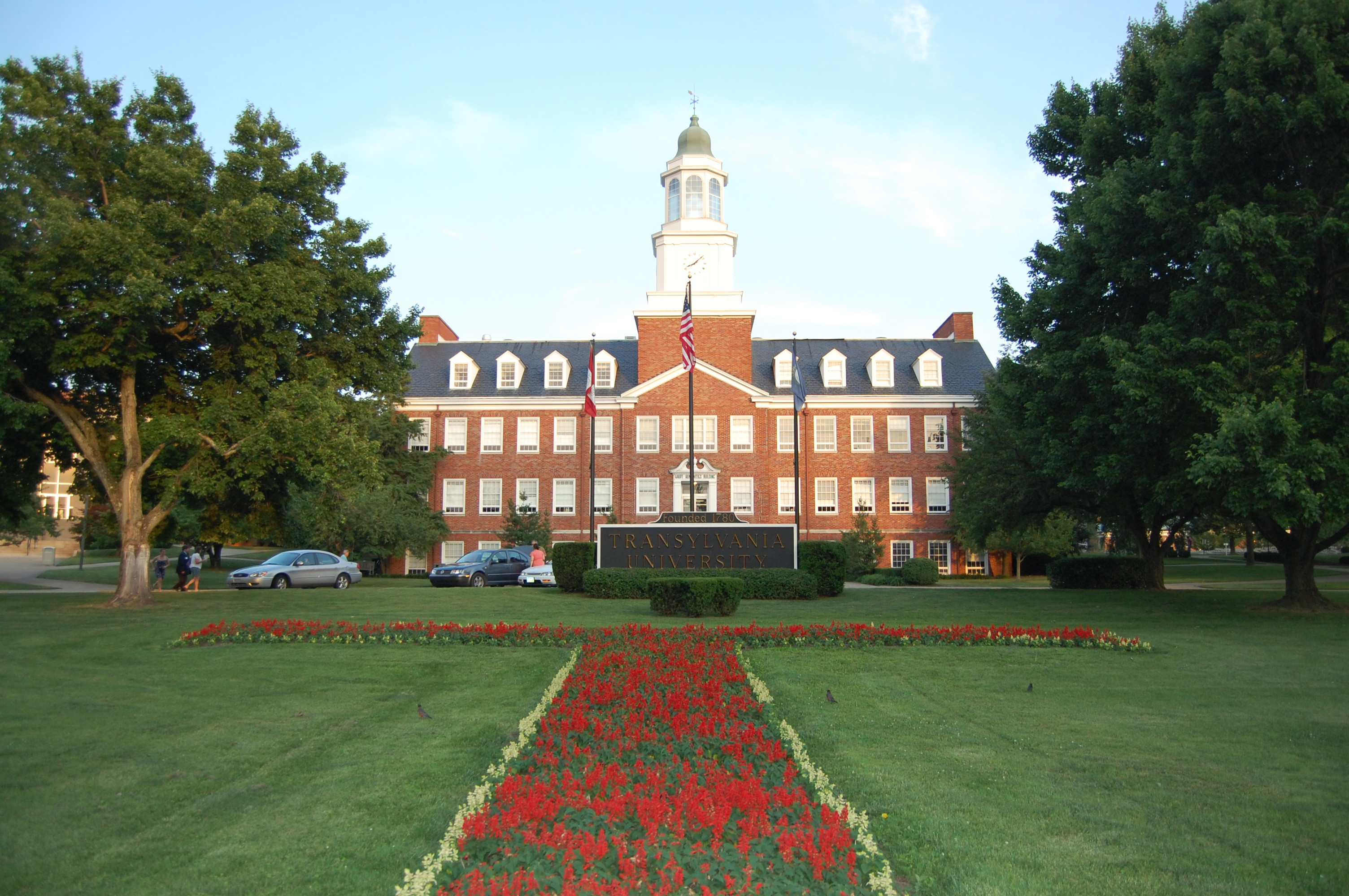 Haupt Humanities Building and front lawn on the Lexington, Kentucky, campus of Transylvania University, founded 1780